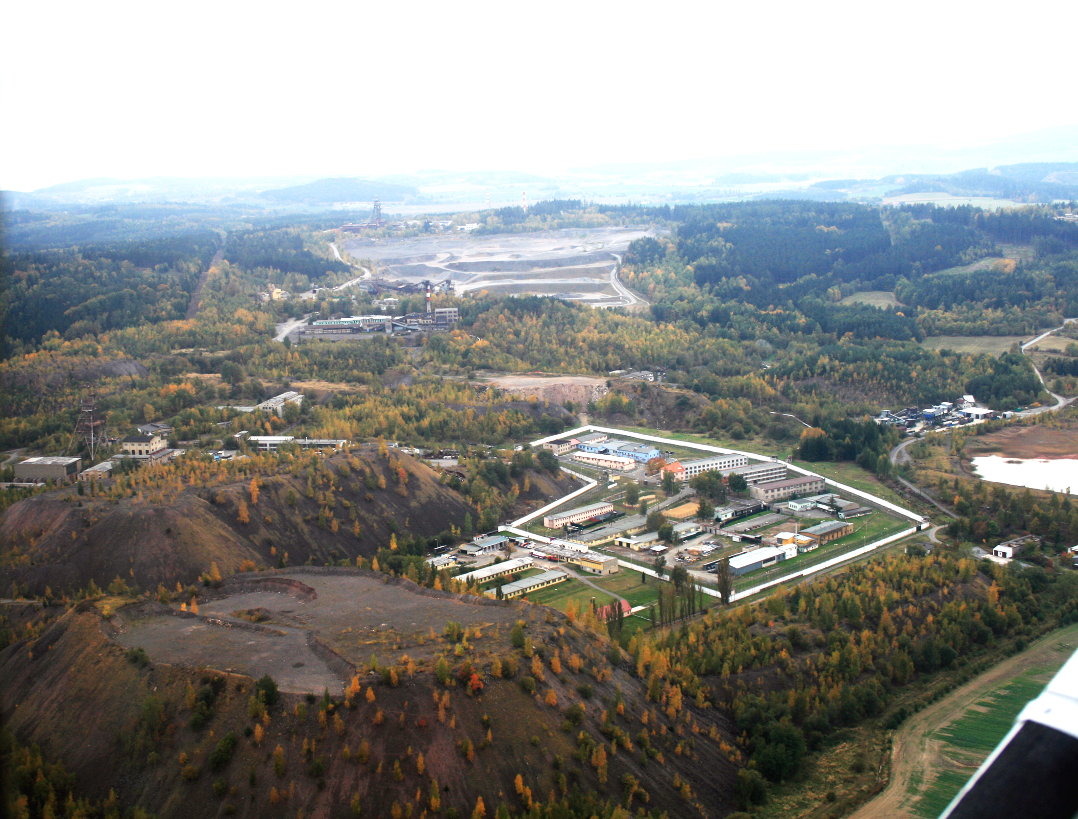 Air photo of old ore mines near of Příbram in central Bohemia, Czech Republic